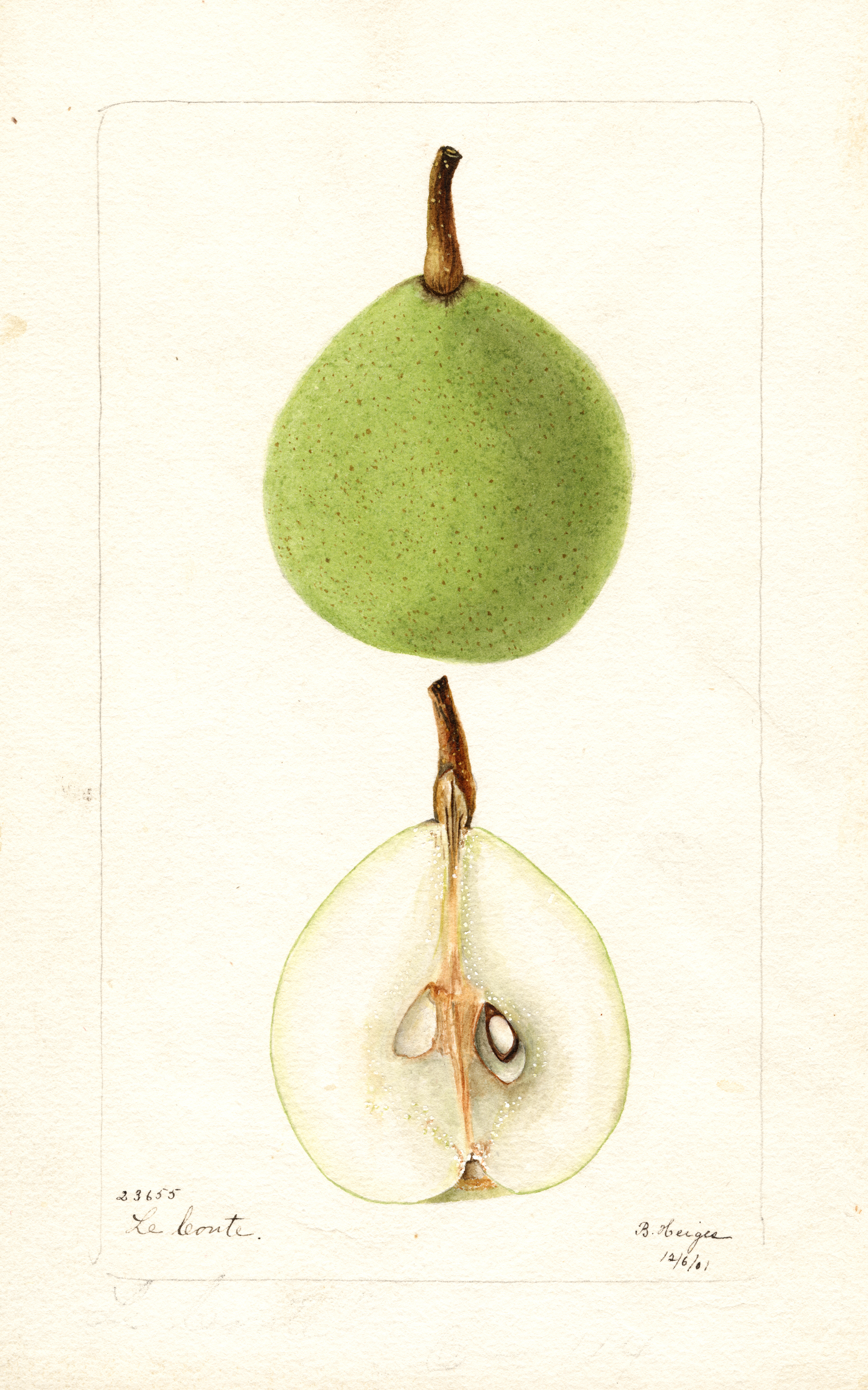 Image of the Le Conte variety of pears (scientific name: Pyrus communis), with this specimen originating in Woodwardville, Anne Arundel County, Maryland, United States. Source: U.S. Department of Agriculture Pomological Watercolor Collection. Rare and Special Collections, National Agricultural Library, Beltsville, MD 20705.